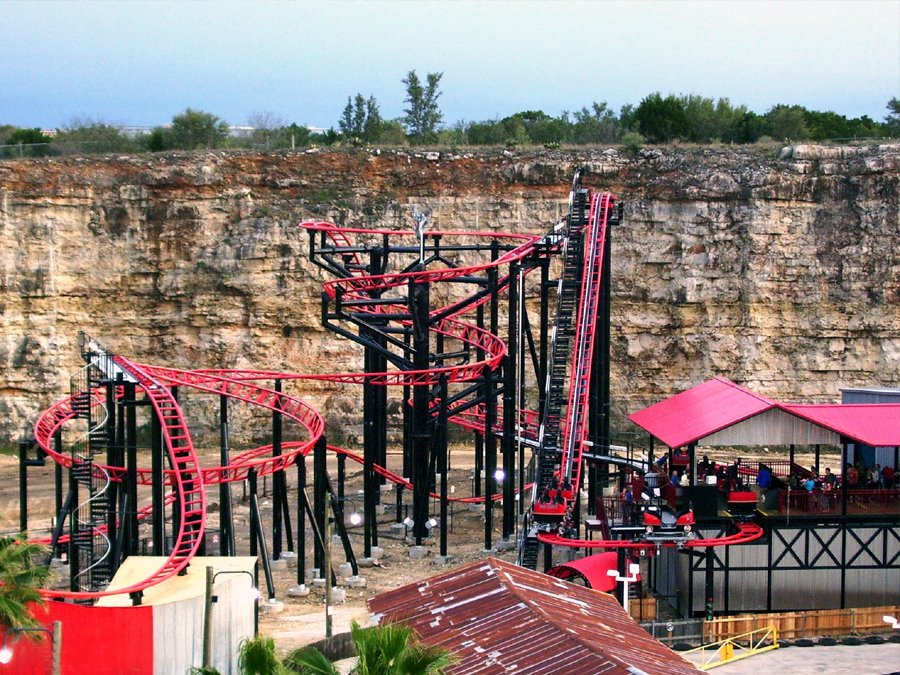 Pandemonium at Six Flags Fiesta Texas (photo taken when it was Tony Hawks Big Spin).